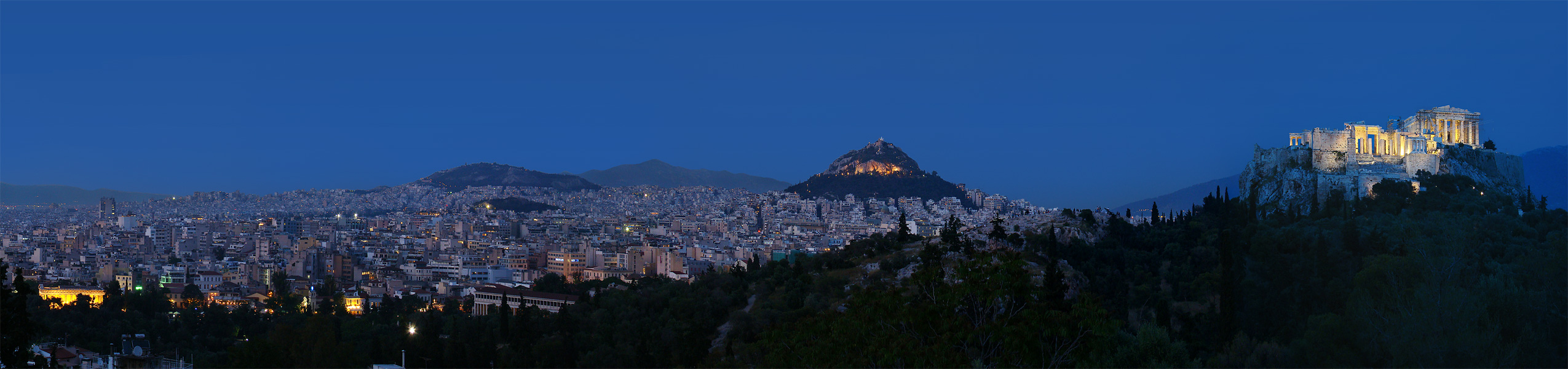 Athens, Greece. Panorama from the Hill of the Pnyx. On the left: the Temple of Hephaestus. In the centre: the Stoa of Attalos, Mount Lykavittos. On the right: the Acropolis. See the photo notes for the exact locations.